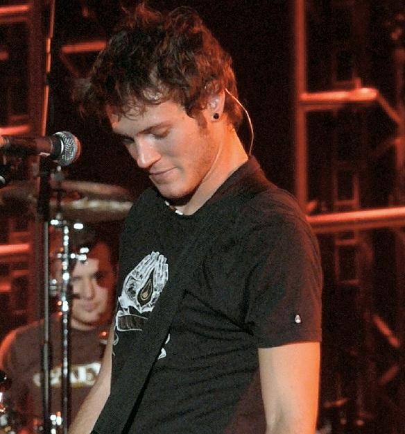 Dougie Poynter of McFly.